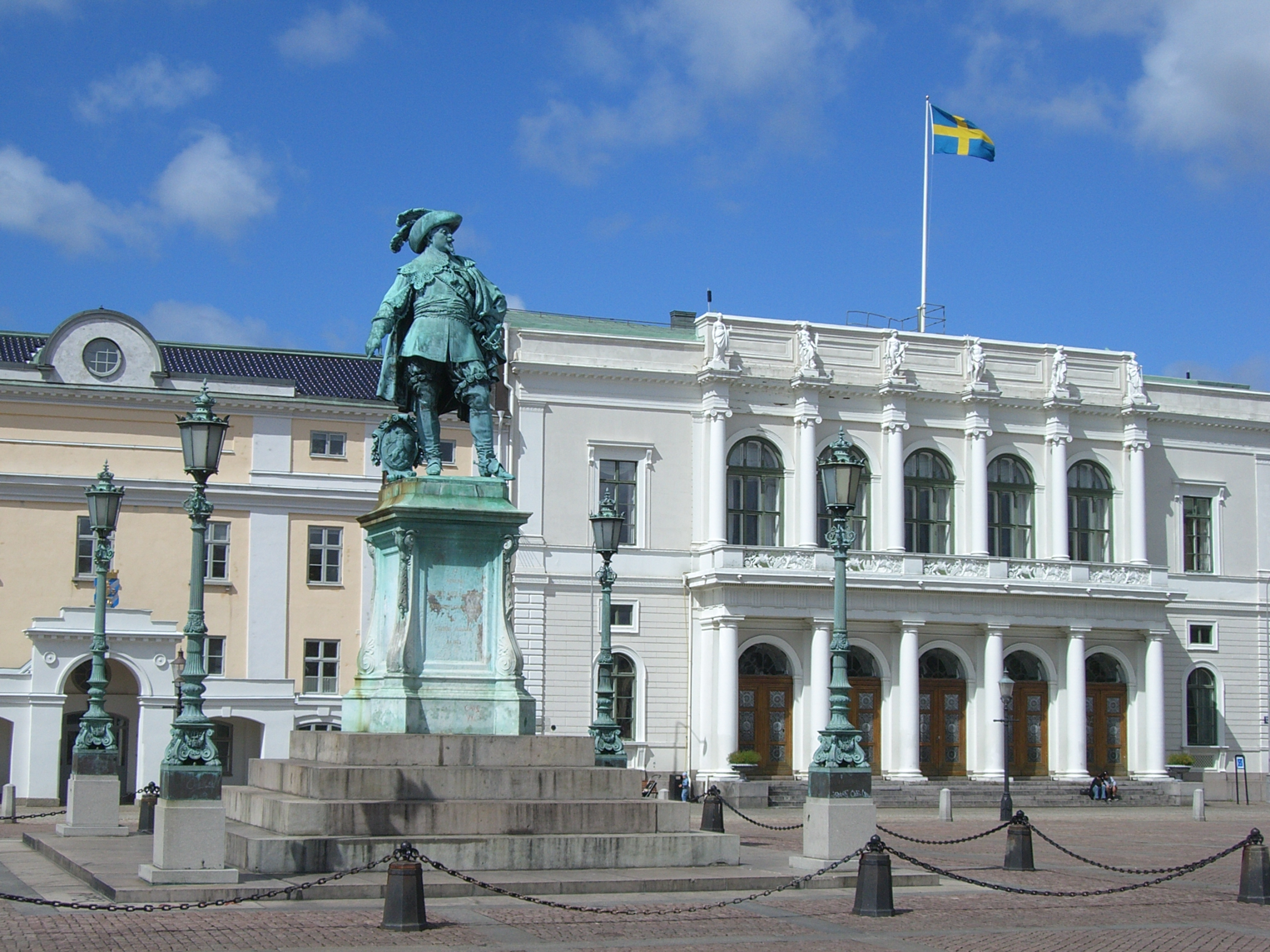 Gustav II Adolf (founder of the city) in front of Gothenburg stock exchange (square: Adolfstorg)